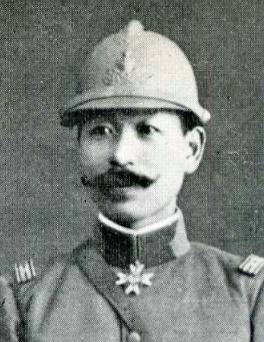 General Nobutaka Shioden (四王天延孝, 1908-1967)